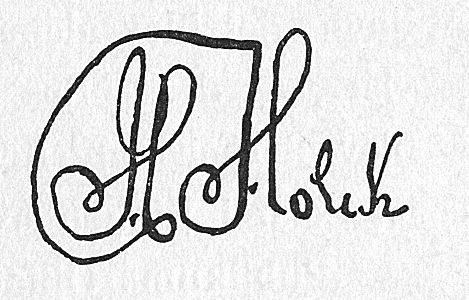 Hans Holcks underskrift.